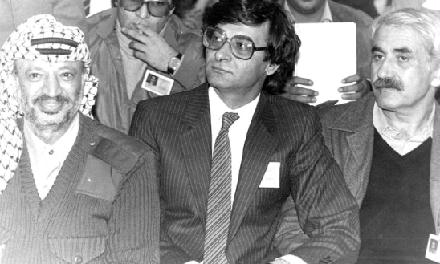 A picture for (left to right) Yasser Arafat, Mahmoud Darwish & George Habash taken in Syria and was first published also in Syria.